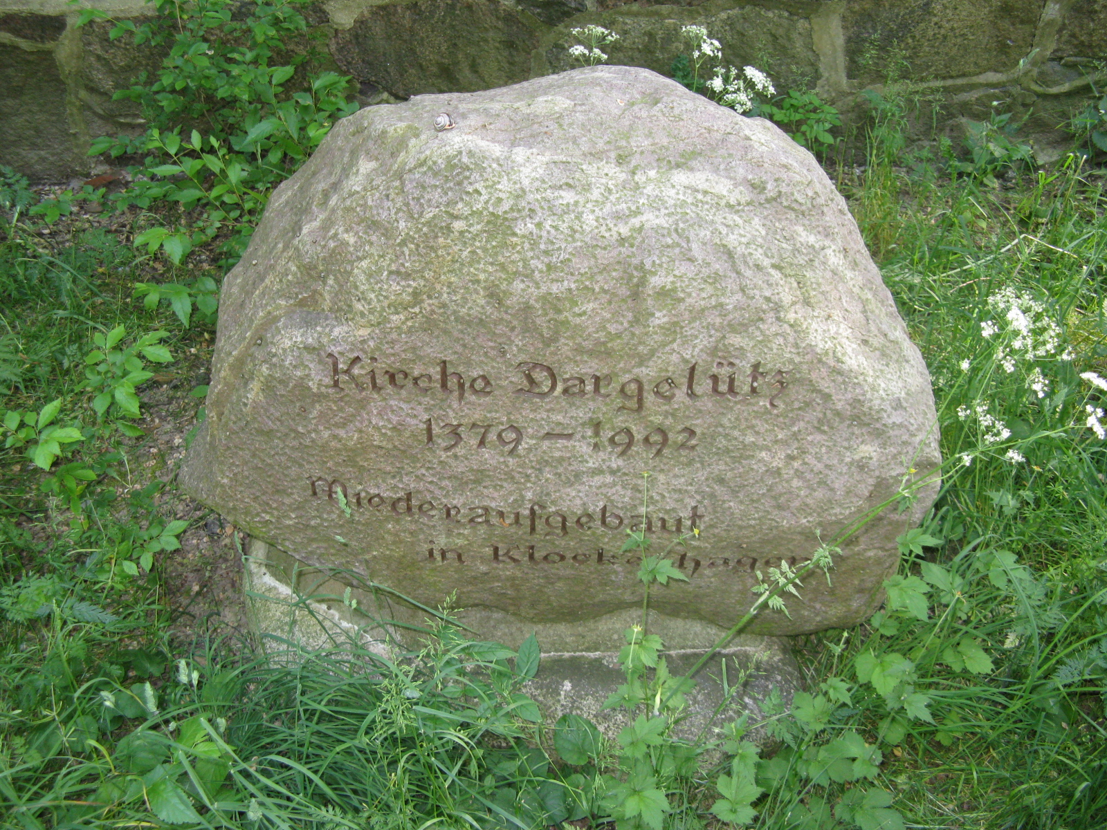 Memorial for church of Dargelütz, Mecklenburg-Vorpommern, Germany; The nave was rebuilded in a museum in Klockenhagen